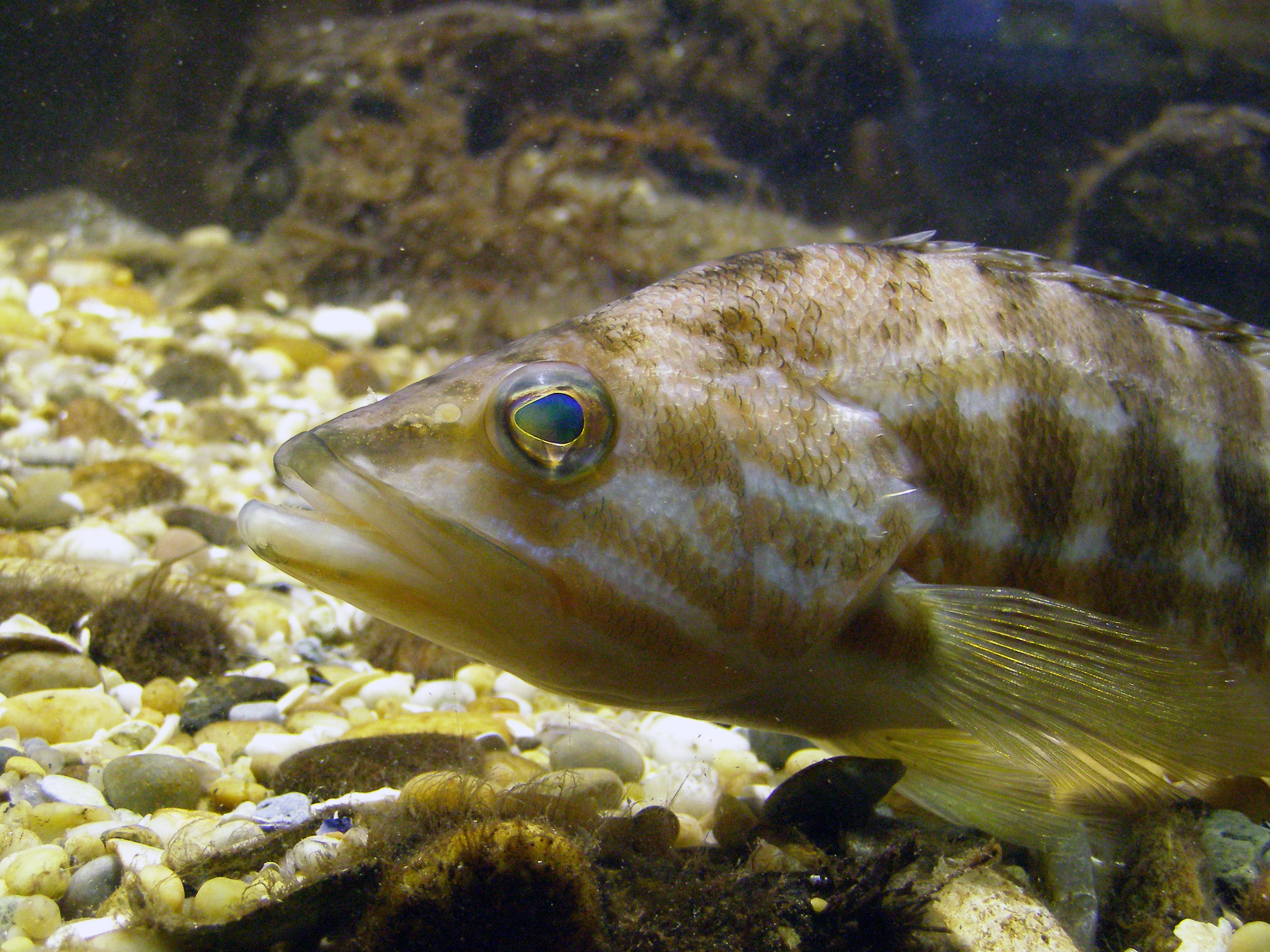 Comber. Closeup. Captive specimen. Estação Litoral da Aguda, Arcozelo, Vila Nova de Gaia, Portugal.